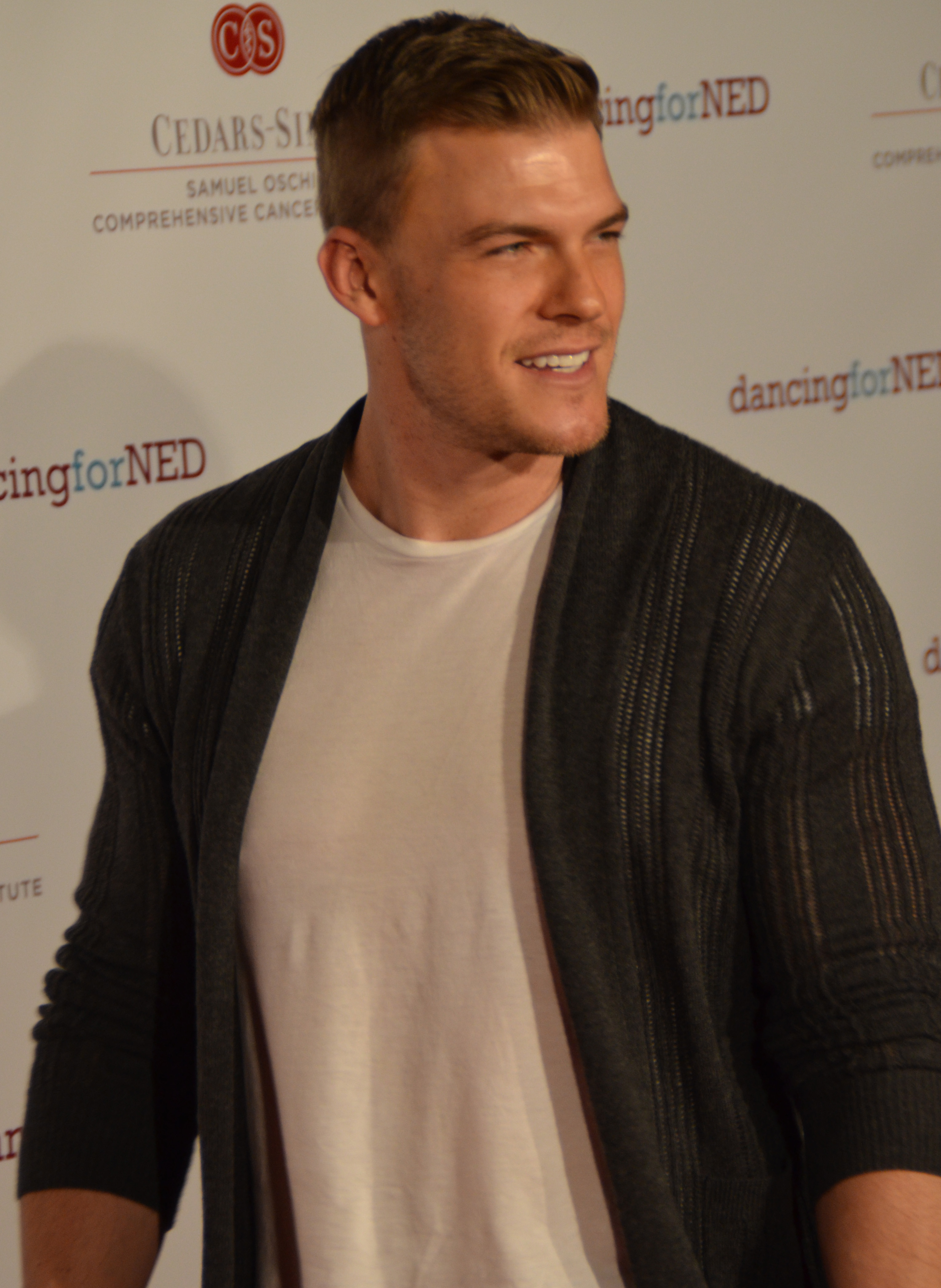 Alan Ritchson (cropped)